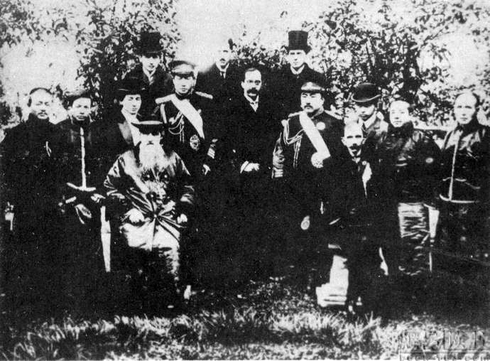 Yin Changheng, Luo Lun and foreigners